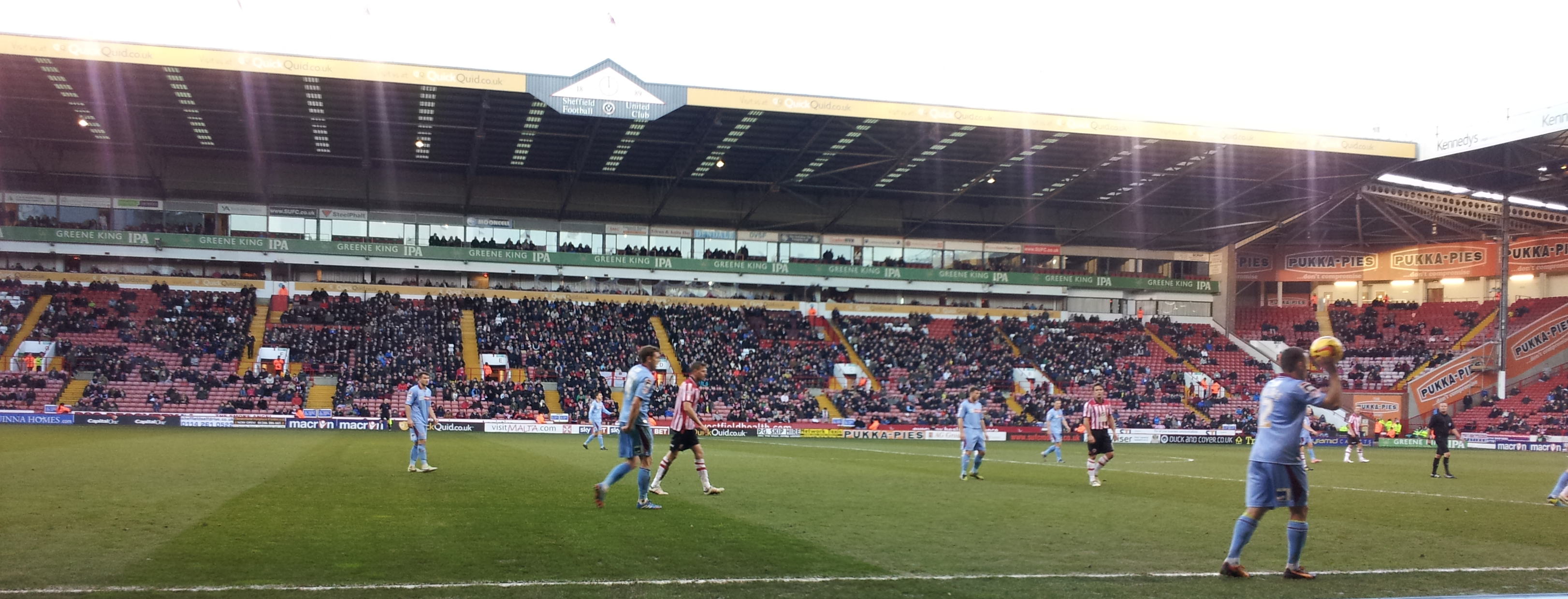 Sheffield United V Tranmere Rovers December 2013